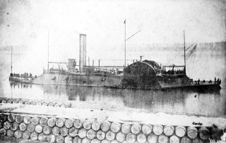 USS Eastport, reportedly at Helena, Arkansas, 1863